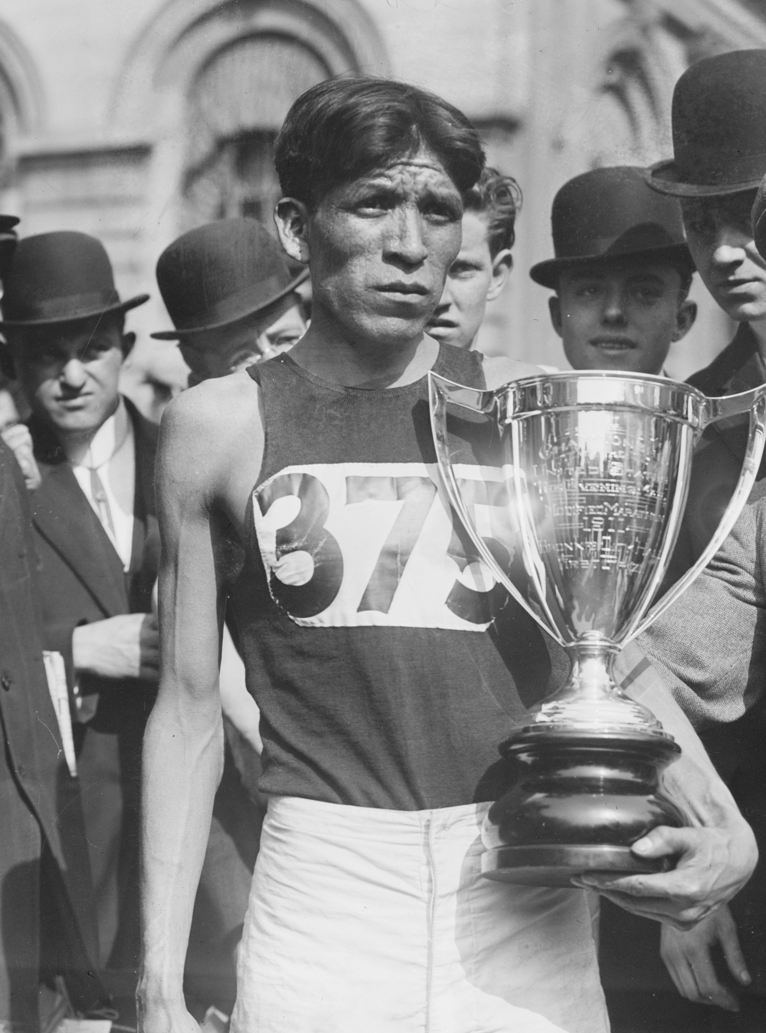 "Lewis Tewanima" An undated image, from the Bain News Service, of Lewis Tewanima, a 10,000m Olympic silver winner.